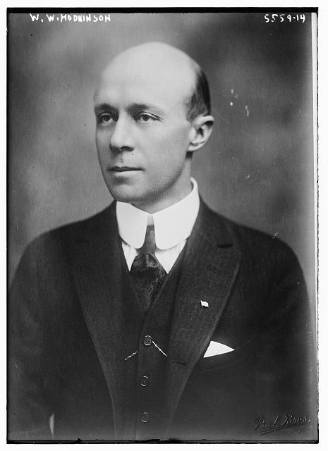 TITLE: W.W. Hodkinson CALL NUMBER: LC-B2- 5559-14[P&P] REPRODUCTION NUMBER: LC-DIG-ggbain-33181 (digital file from original negative) RIGHTS INFORMATION: No known restrictions on publication. MEDIUM: 1 negative : glass ; 5 x 7 in. or smaller. CREATED/PUBLISHED: [no date recorded on caption card] CREATOR: Bain News Service, publisher. NOTES: Title from unverified data provided by the Bain News Service on the negatives or caption cards. Forms part of: George Grantham Bain Collection (Library of Congress). General information about the Bain Collection is available at FORMAT: Glass negatives. REPOSITORY: Library of Congress Prints and Photographs Division Washington, D.C. 20540 USA CONTROL #: ggb2006008594